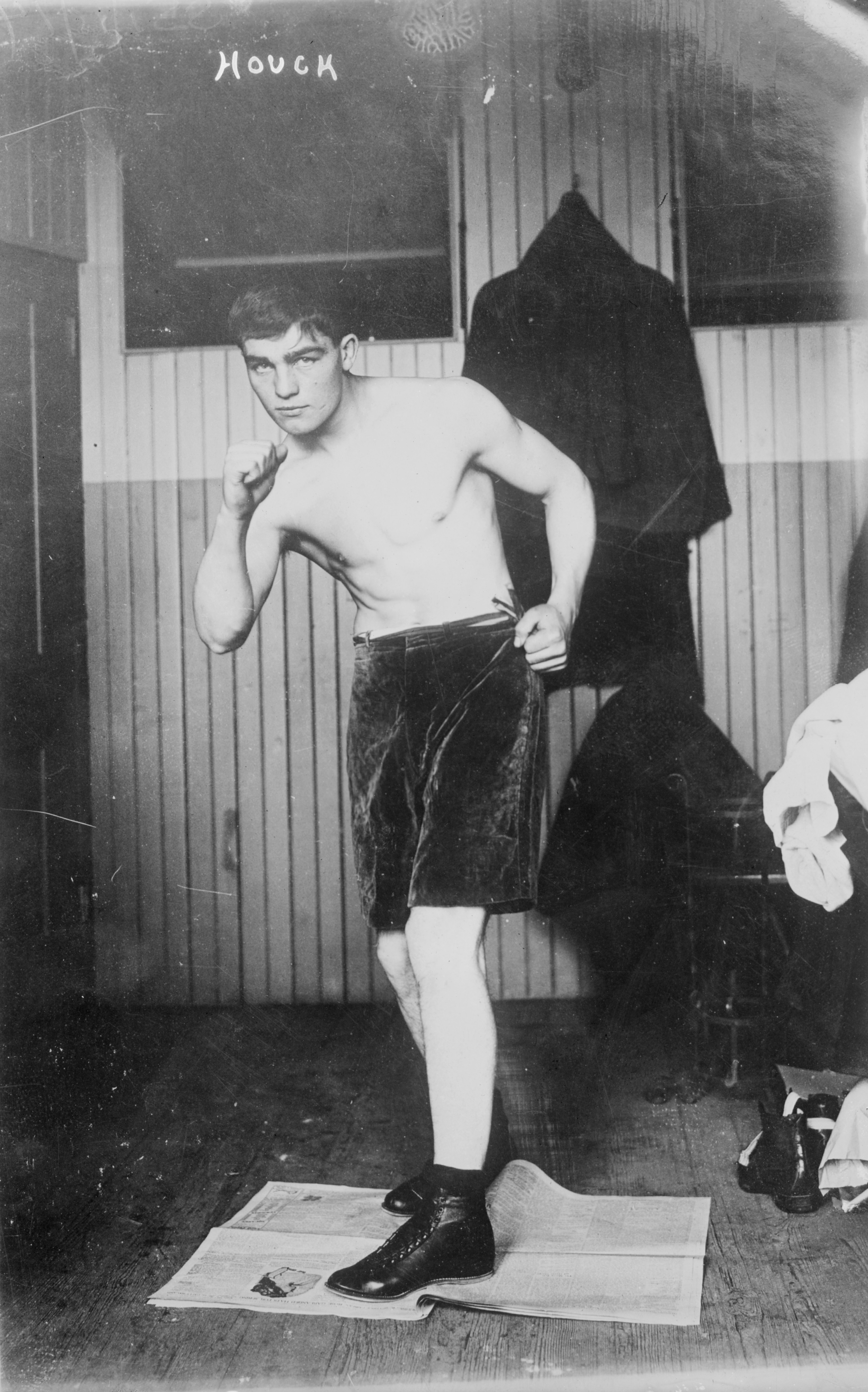 Bain News Service,, publisher. Leo Houck [between ca. 1910 and ca. 1915] 1 negative : glass ; 5 x 7 in. or smaller. Notes: Title from unverified data provided by the Bain News Service on the negatives or caption cards. Forms part of: George Grantham Bain Collection (Library of Congress). Format: Glass negatives. Repository: Library of Congress, Prints and Photographs Division, Washington, D.C. 20540 USA, General information about the Bain Collection is available at Persistent URL: Call Number: LC-B2- 2980-15